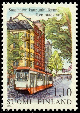 Postage stamp depicting a tram in the city of Helsinki, as an example of pollution-free city transportation